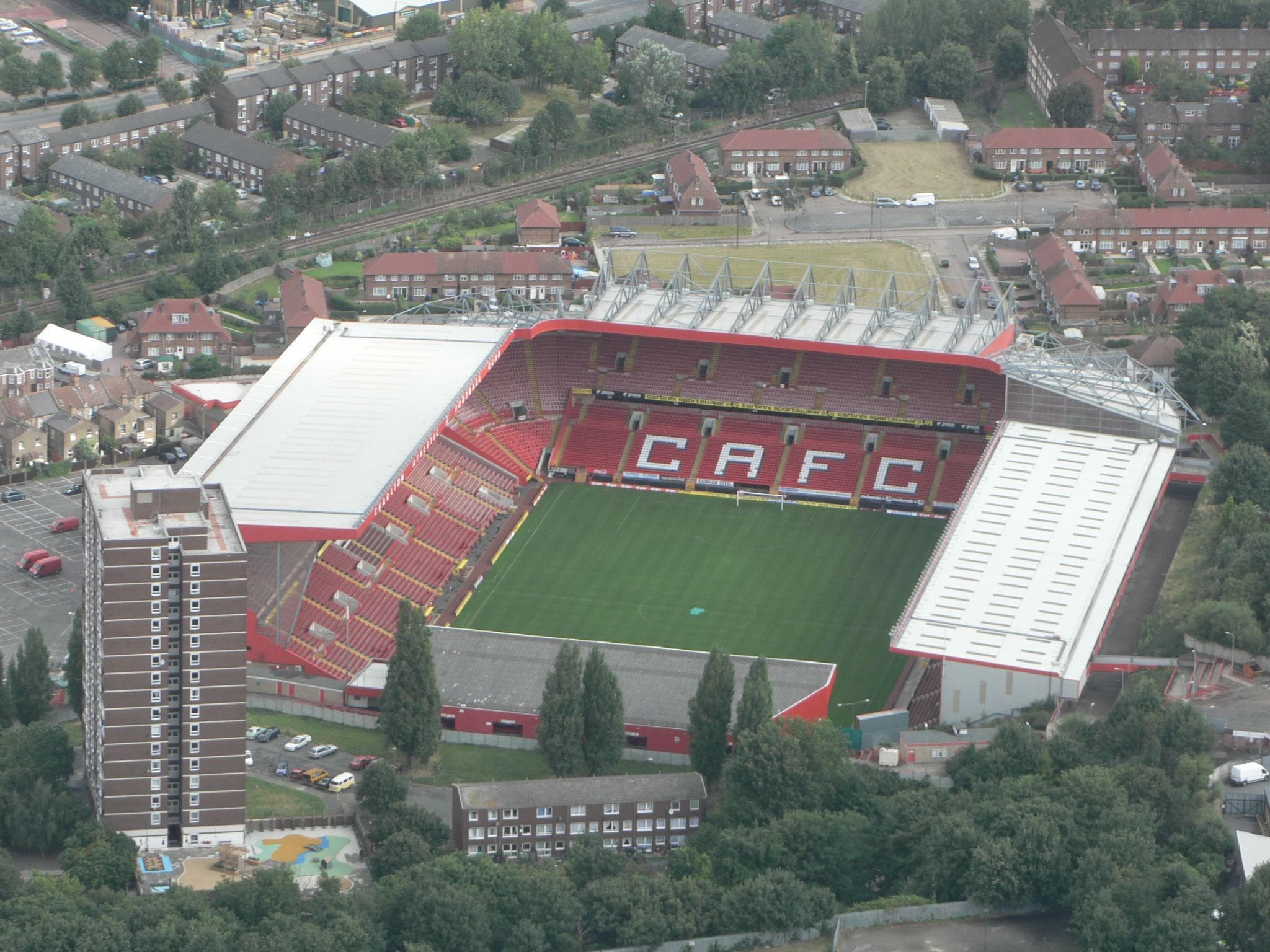 An aerial shot of The Valley, the home of Charlton Athletic F.C..